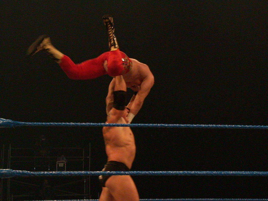 Smackdown taping in Tacoma, WA, February 10, 2004.